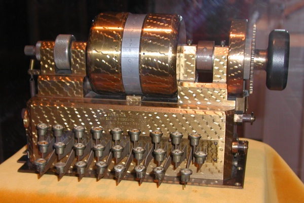 A single rotor Hebern rotor machine on display at the National Cryptologic Museum. Photography courtesy of Professor Roger Brown, who agreed to license the image under the GFDL after an email exchange with User:Matt Crypto